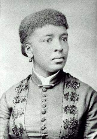 Louise Celia "Lulu" Fleming (1862–1899) was a medical doctor and one of the first African-Americans to graduate from the Women’s Medical College of Pennsylvania.[1]